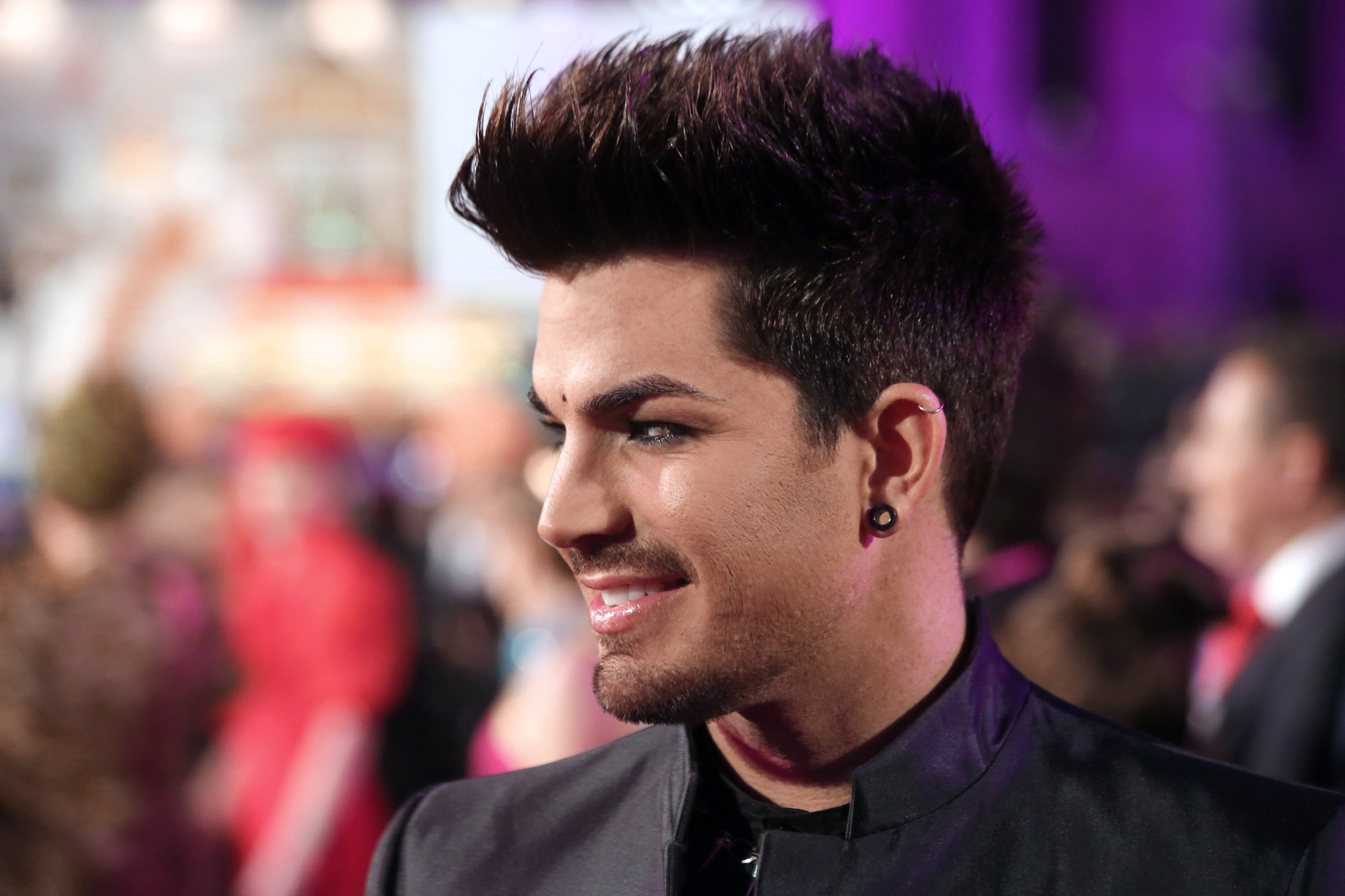 Adam Lambert on the 'magenta carpet' at Life Ball 2013 at the square in front of the city hall of Vienna, Vienna, Austria.